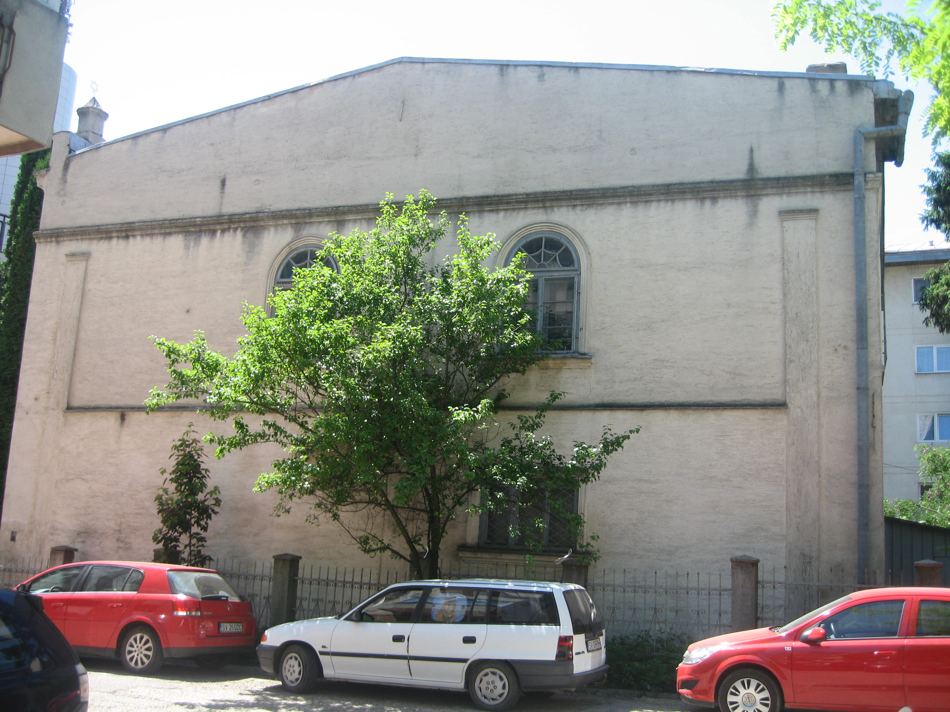 Gah Synagogue in Suceava.